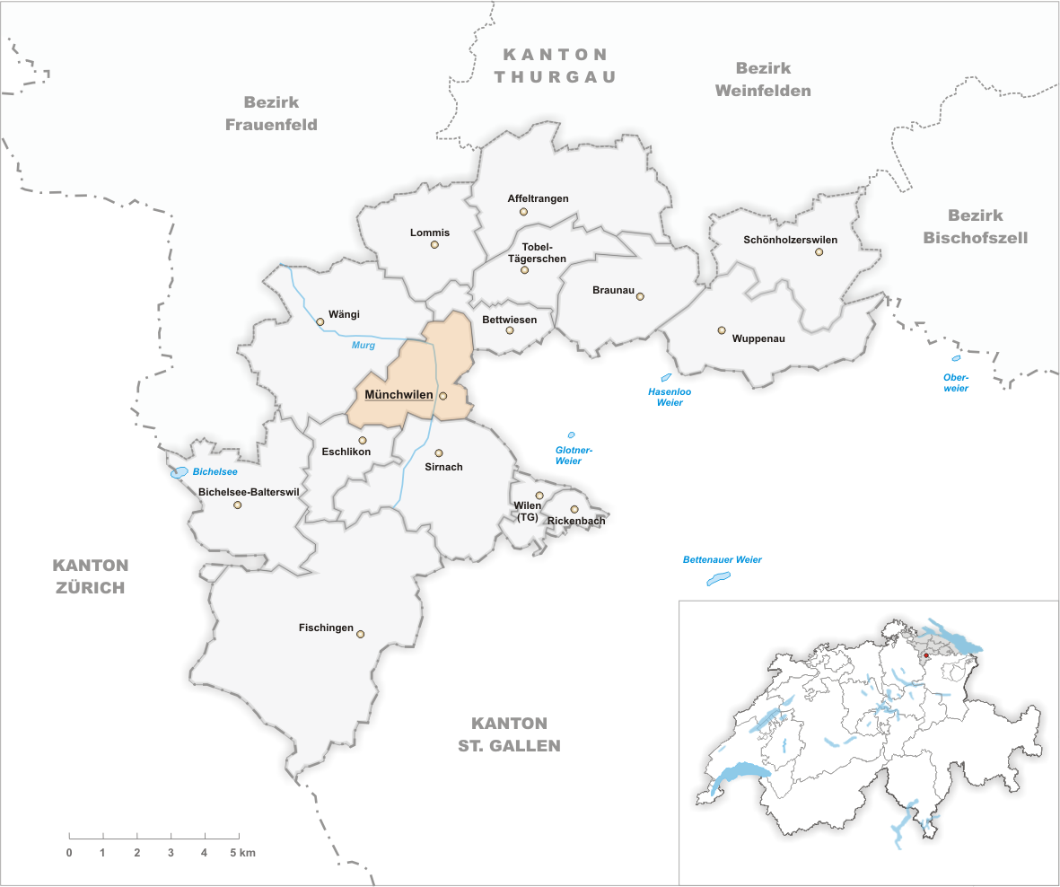 Municipality Münchwilen